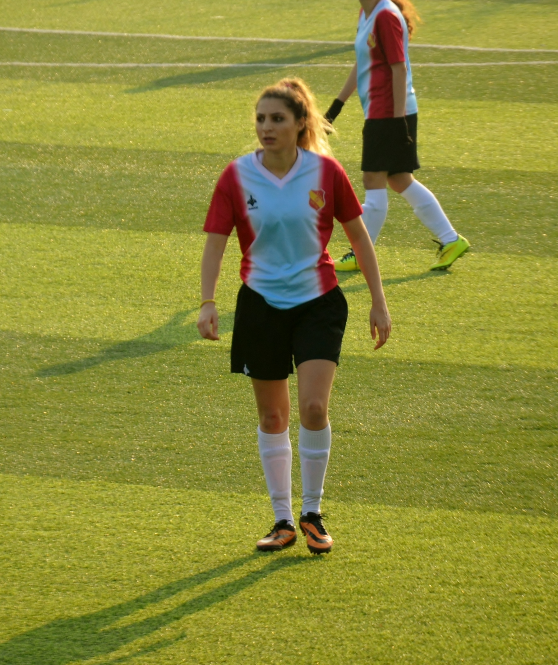 Elif Deniz playing for Trabzon İdmanocağı (women) in the away match of the 2014-15 season against Ataşehir Belediyespor